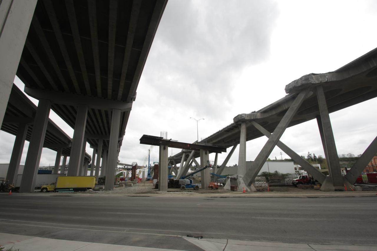 The demolition of the original Nalley Valley Viaduct (built 1969–71) with its tetrapod structure carrying Washington State Route 16 in Tacoma, Washington.